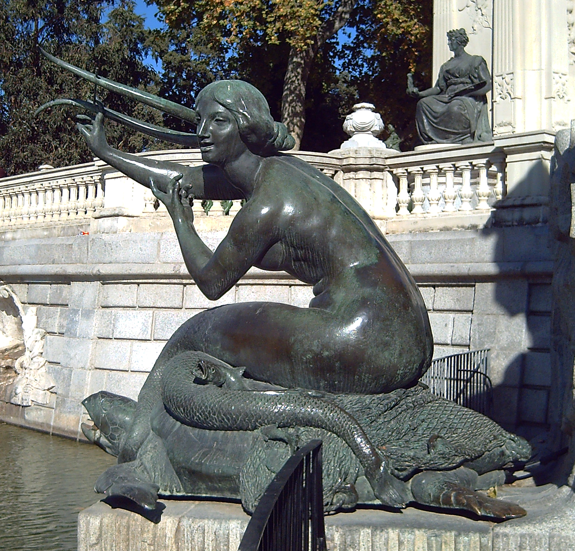 Bronze sculpture of a mermaid over a turtle, made by Antoni Alsina (1865–1948). Detail of the monument to Alfonso XII in the Retiro Park (Jardines del Buen Retiro) in Madrid (Spain), built from 1902 to 1922.